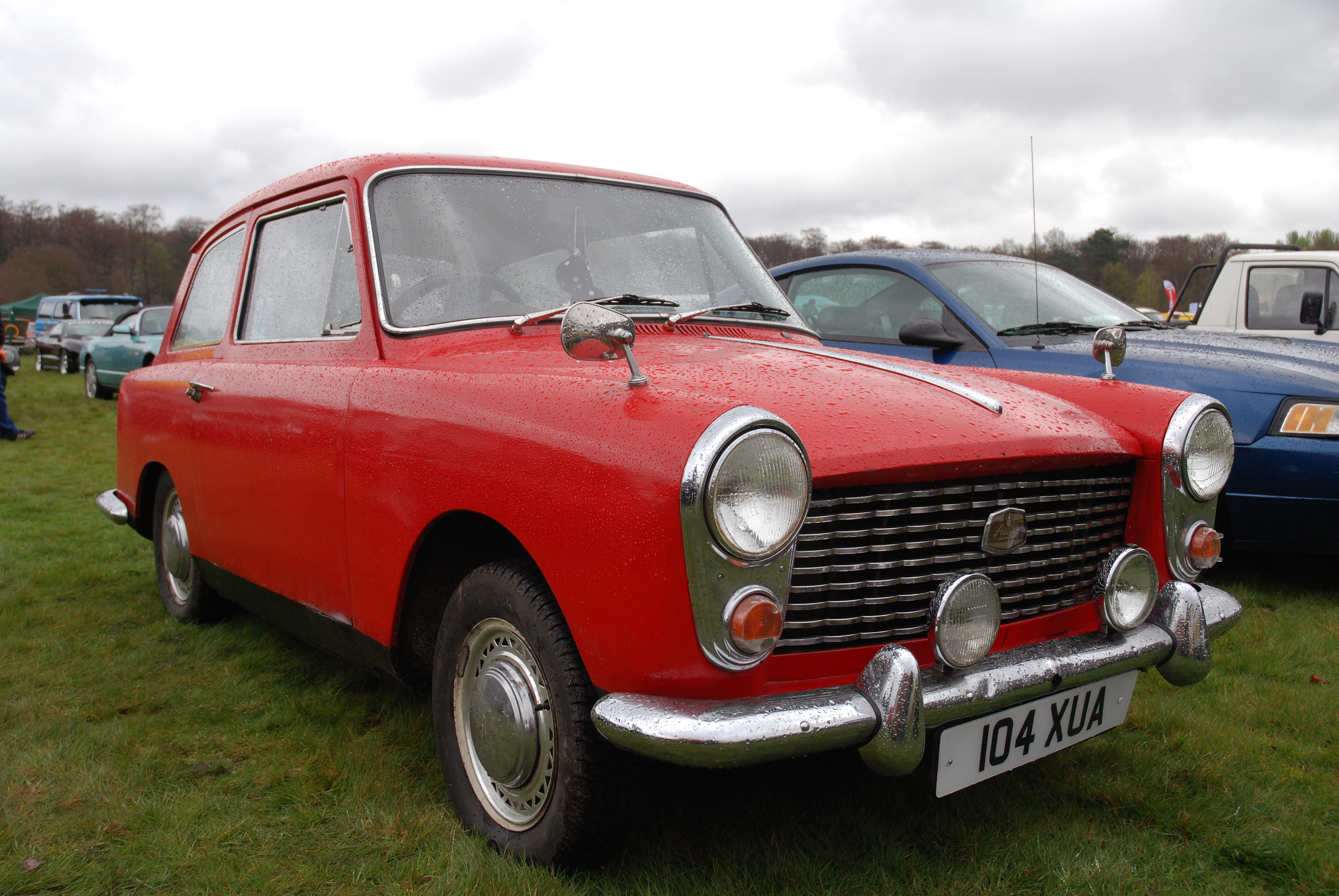 1959 Austin A40 Farina (DVLA) first registered April 1959, 948 ccWheels Day, Apr 2009